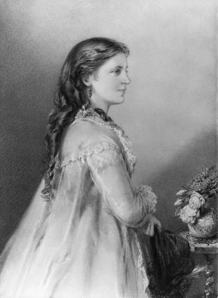 Portrait of Helena Faucit